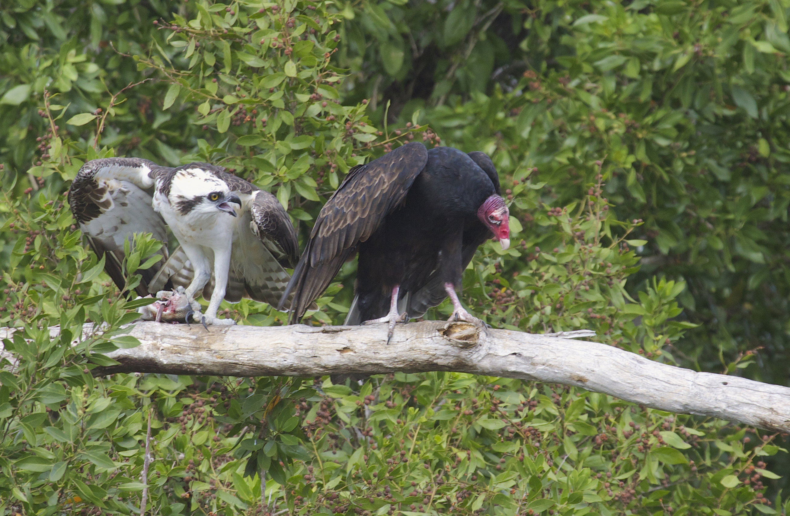 This past November I was in the Everglades (Flamingo) and watched an Osprey take a fish. After landing and starting to consume the fish, a Turkey Vulture landed at the other end of the branch. The vulture started to sidle over to the Osprey (the fish) without making eye contact with the Osprey. This was as about as close as the Osprey could take before taking flight...